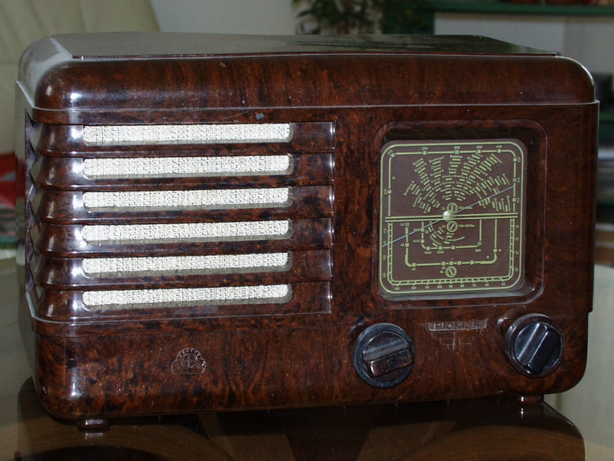 Radio "Pionier U2", (front) manufacturer: "DIORA" (Poland), 1947-1957